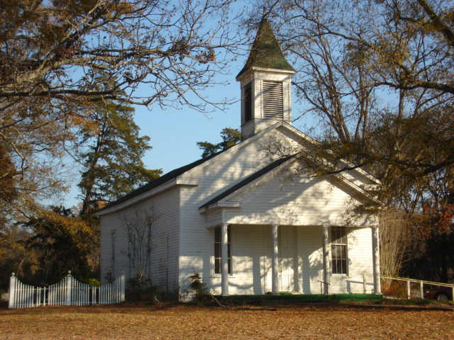 Alto Presbyterian Church in Alto, Louisiana, Richland Parish. 1873. Presbyterian Historical Register The church first belonged to Central Mississippi Presbytery then to the Red River Presbytery and later to the Presbytery of the Pines. The first pastor was the Rev. D.A. Campbell and A.B. Cooper served as the first Clerk of the Session.